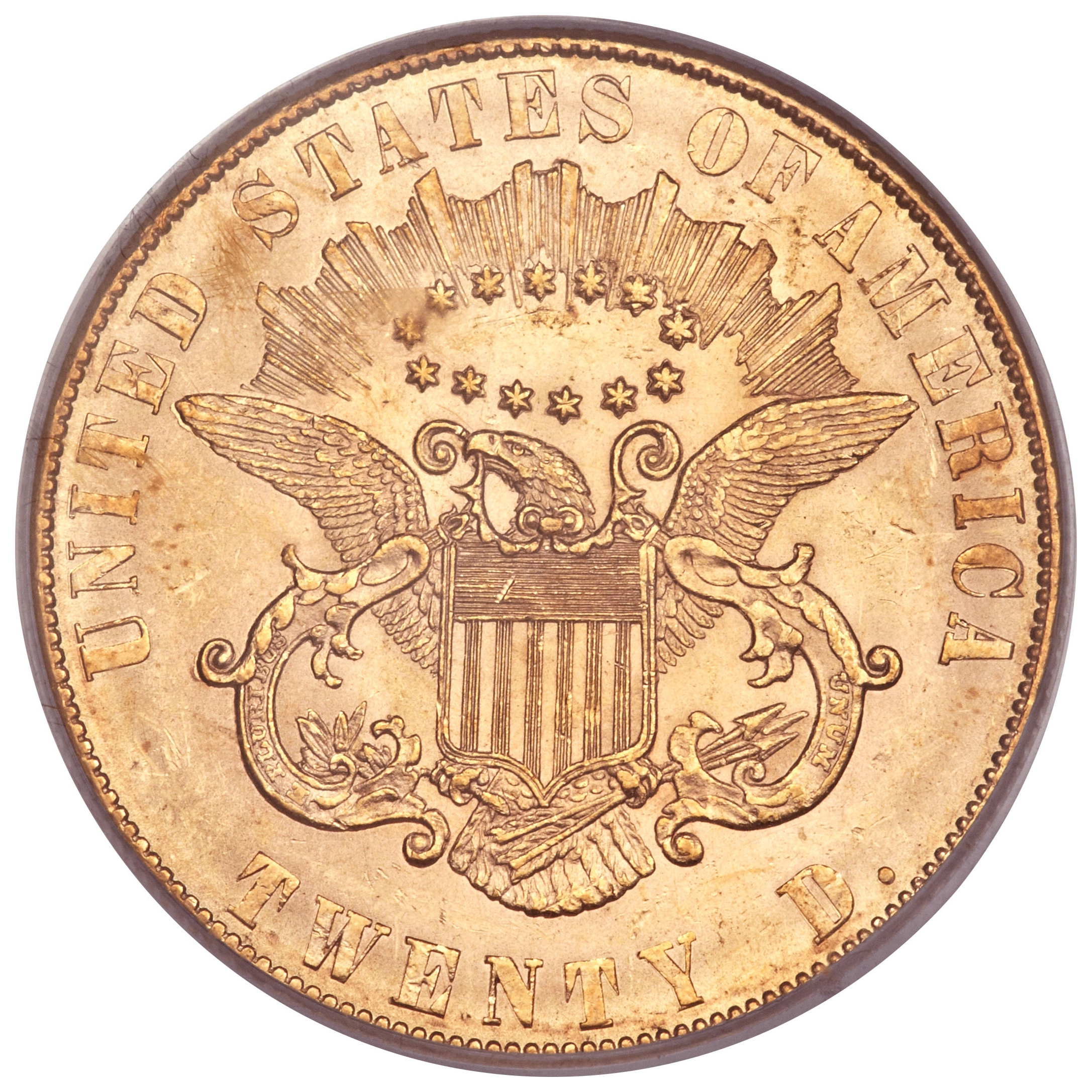 1861 $20 Paquet Double Eagle (rev) (1208-5702)